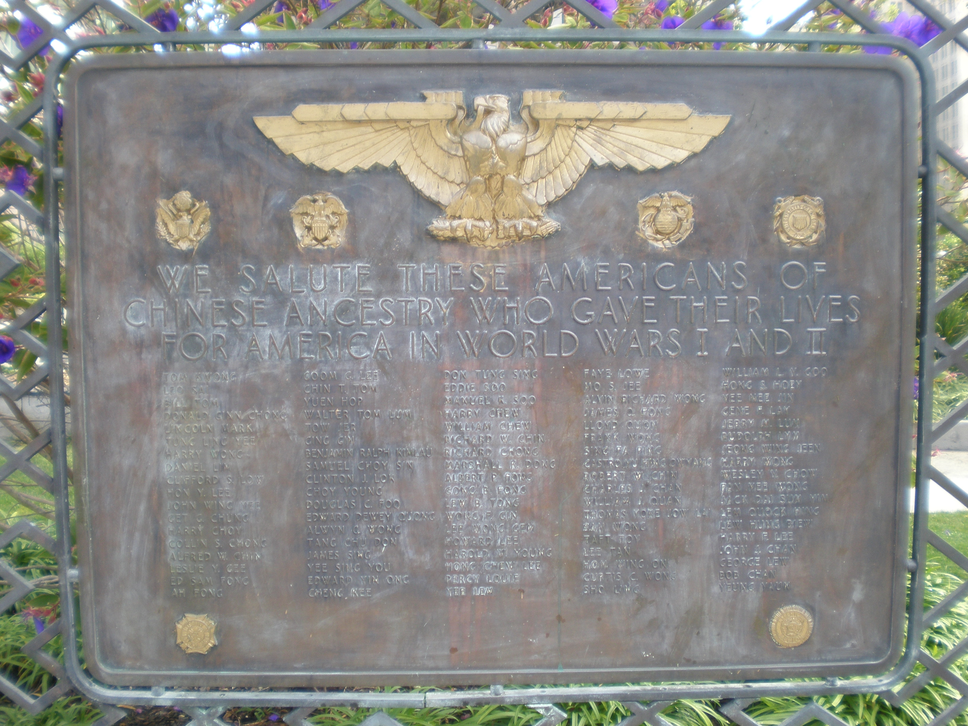 A plaque commemorating the Chinese-American dead of World Wars I and II at St. Mary's Square in San Francisco.